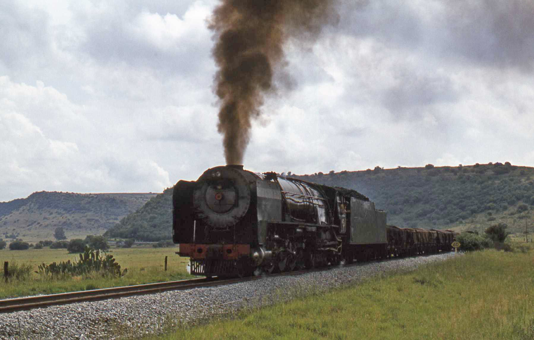 SAR Class 25NC 3450 (4-8-4) Henschel 28697 of 1953. Rebuilt in 1980 as Class 26 ‘Red Devil’ Location: Kloofeind